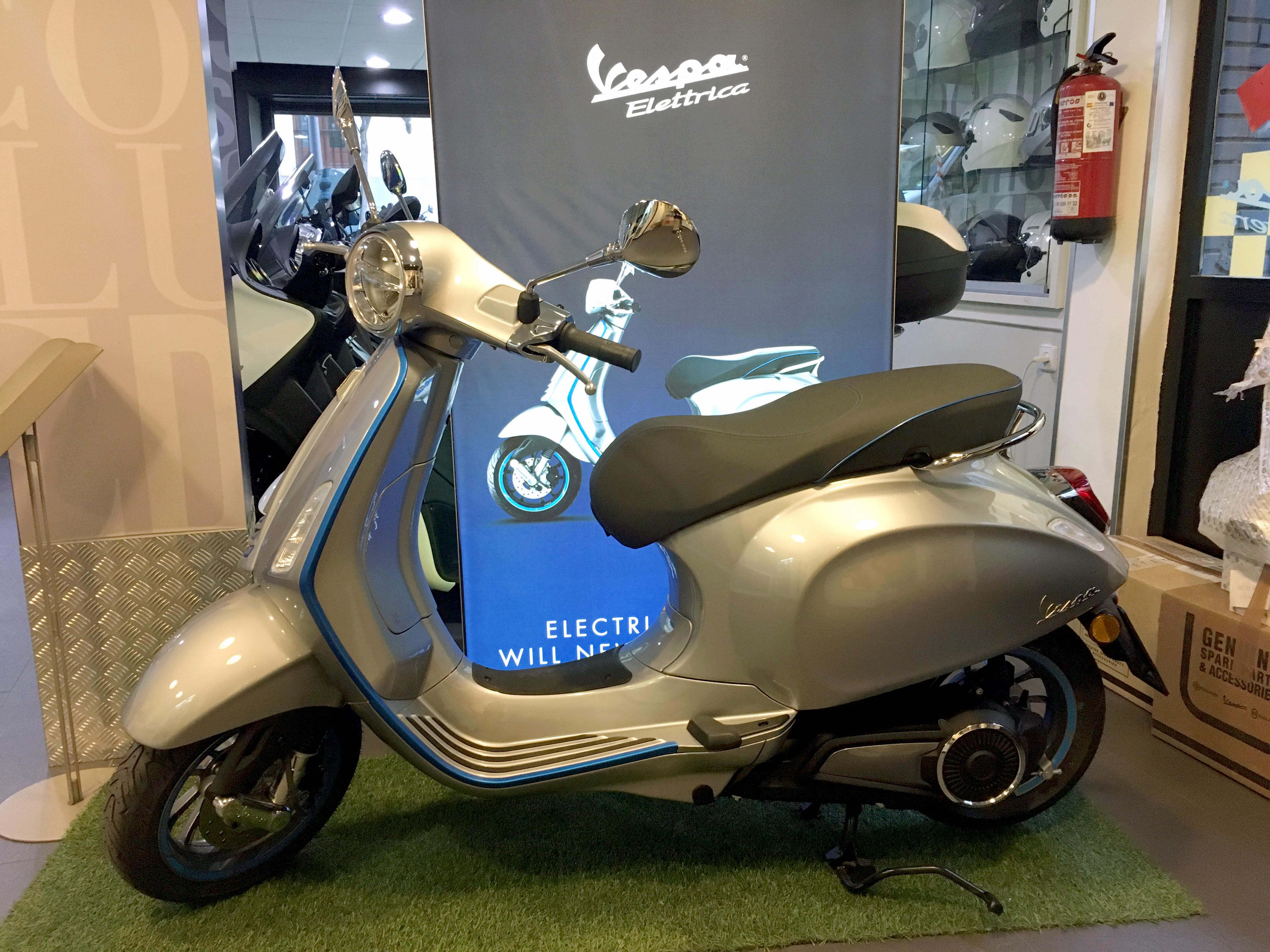 Vespa Elettrica in a dealer of Madrid (Spain)